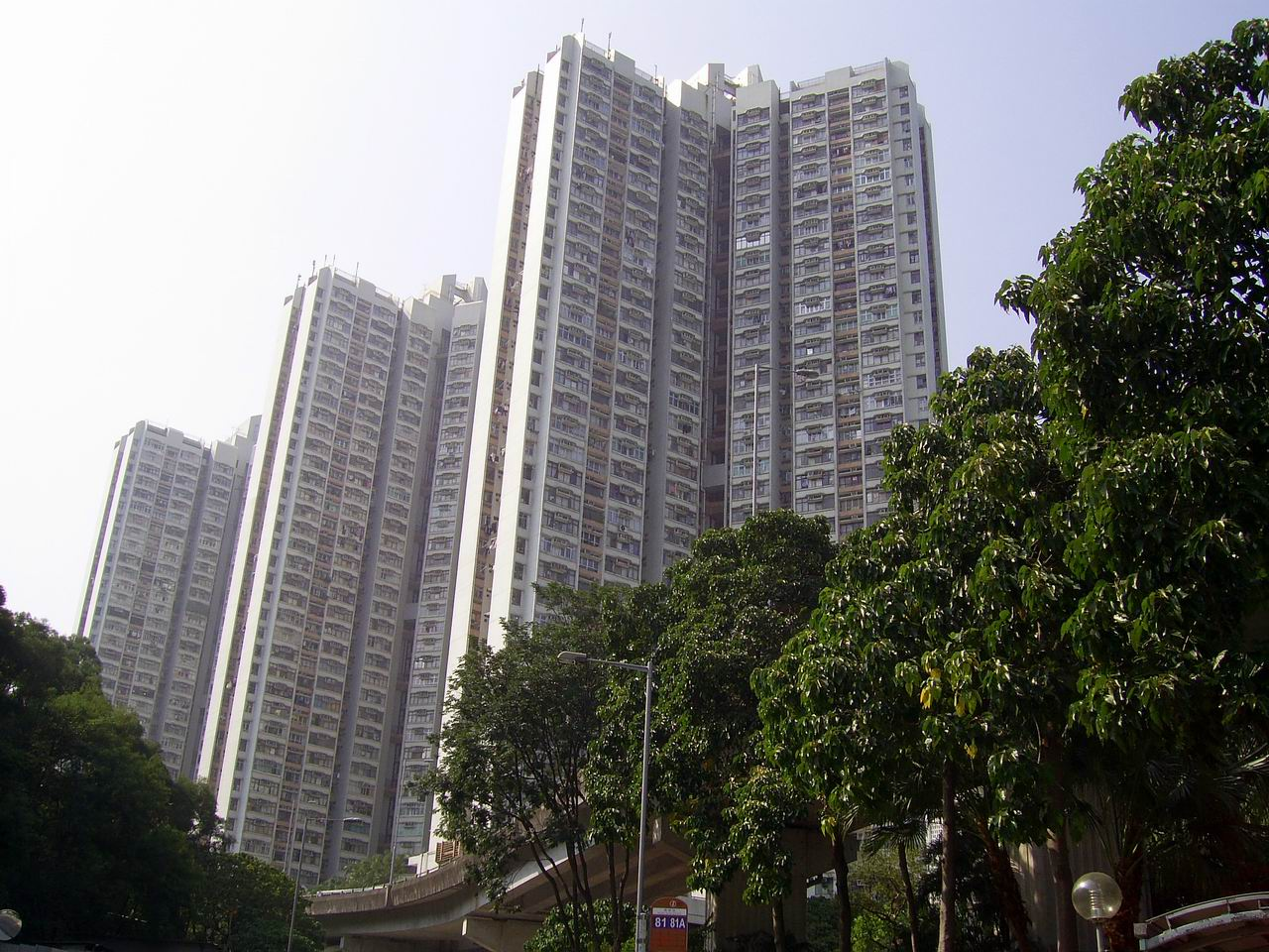 中文（香港）: 峰華邨，最後一座是景翠苑 Fung Wah Estate and King Tsui Court (back)